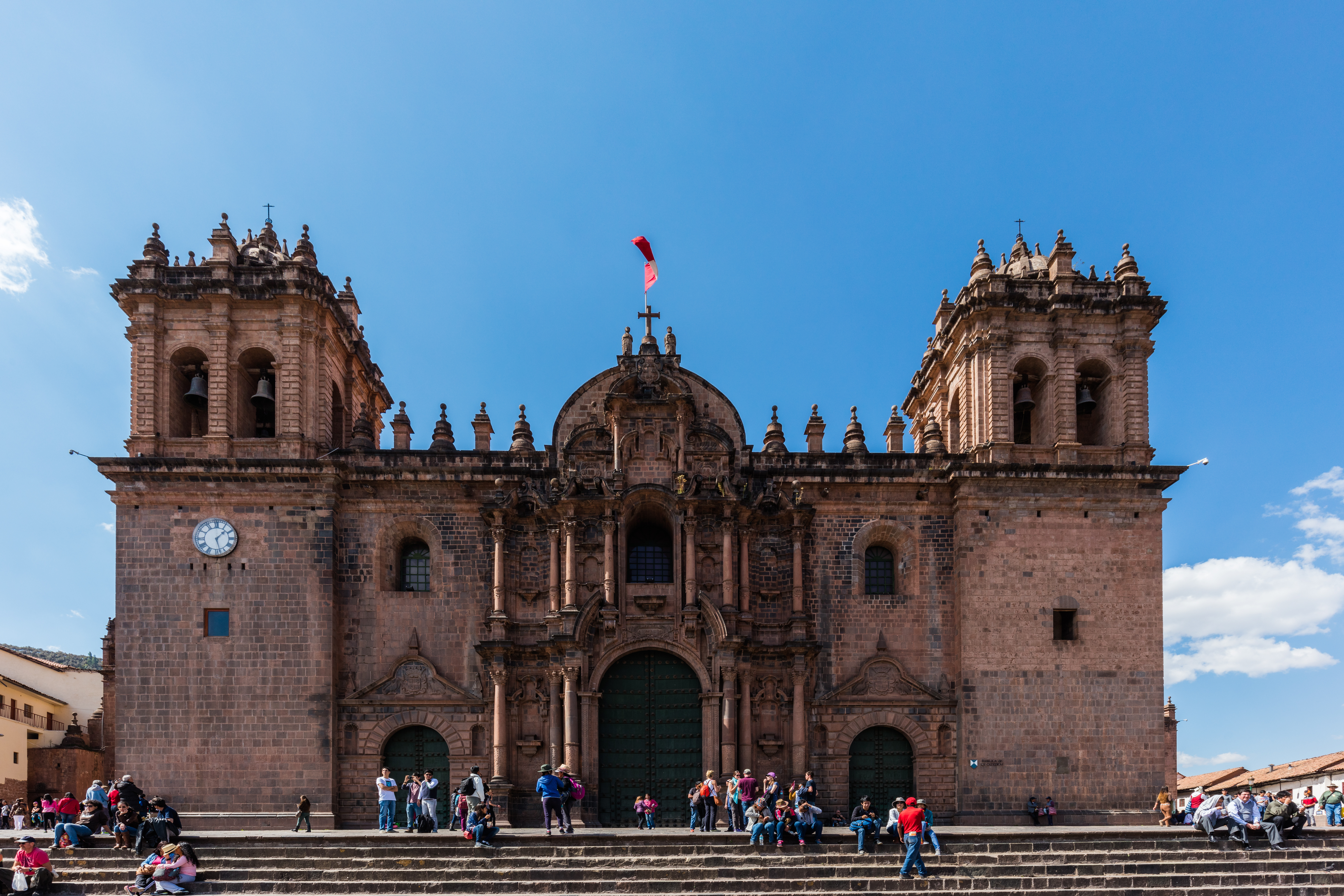 Cathedral, Plaza de Armas, Cusco, Peru